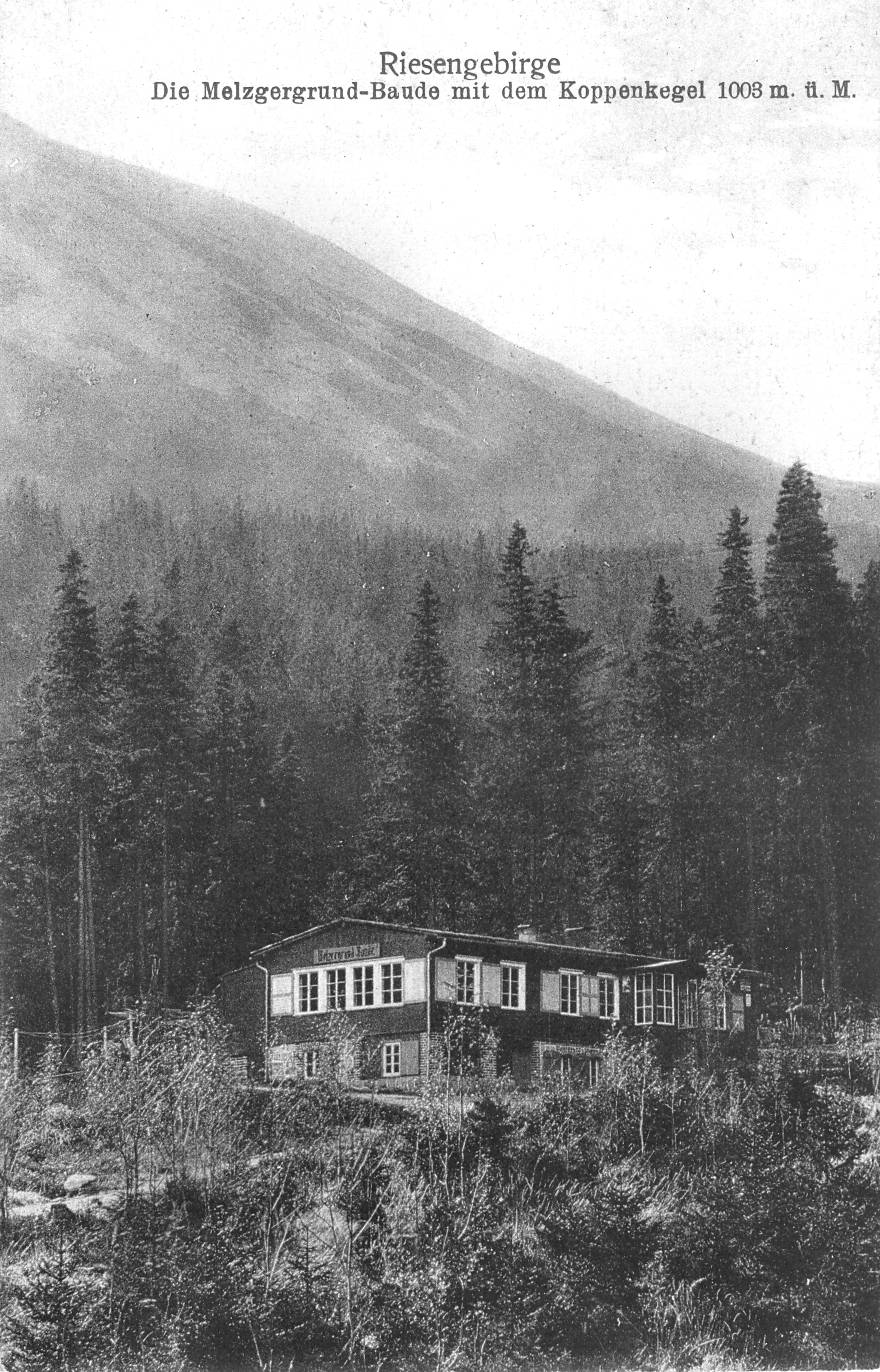 Łomniczka Hut, Karkonosze, Germany now Poland.